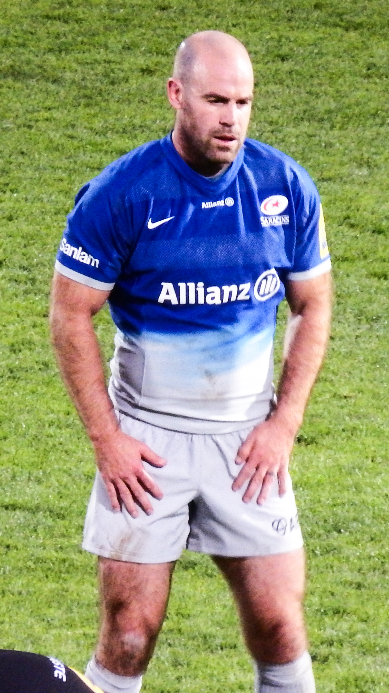 9 October 2015, Stade Jean-Alric. Match between: Stade aurillacois — Saracens F.C.